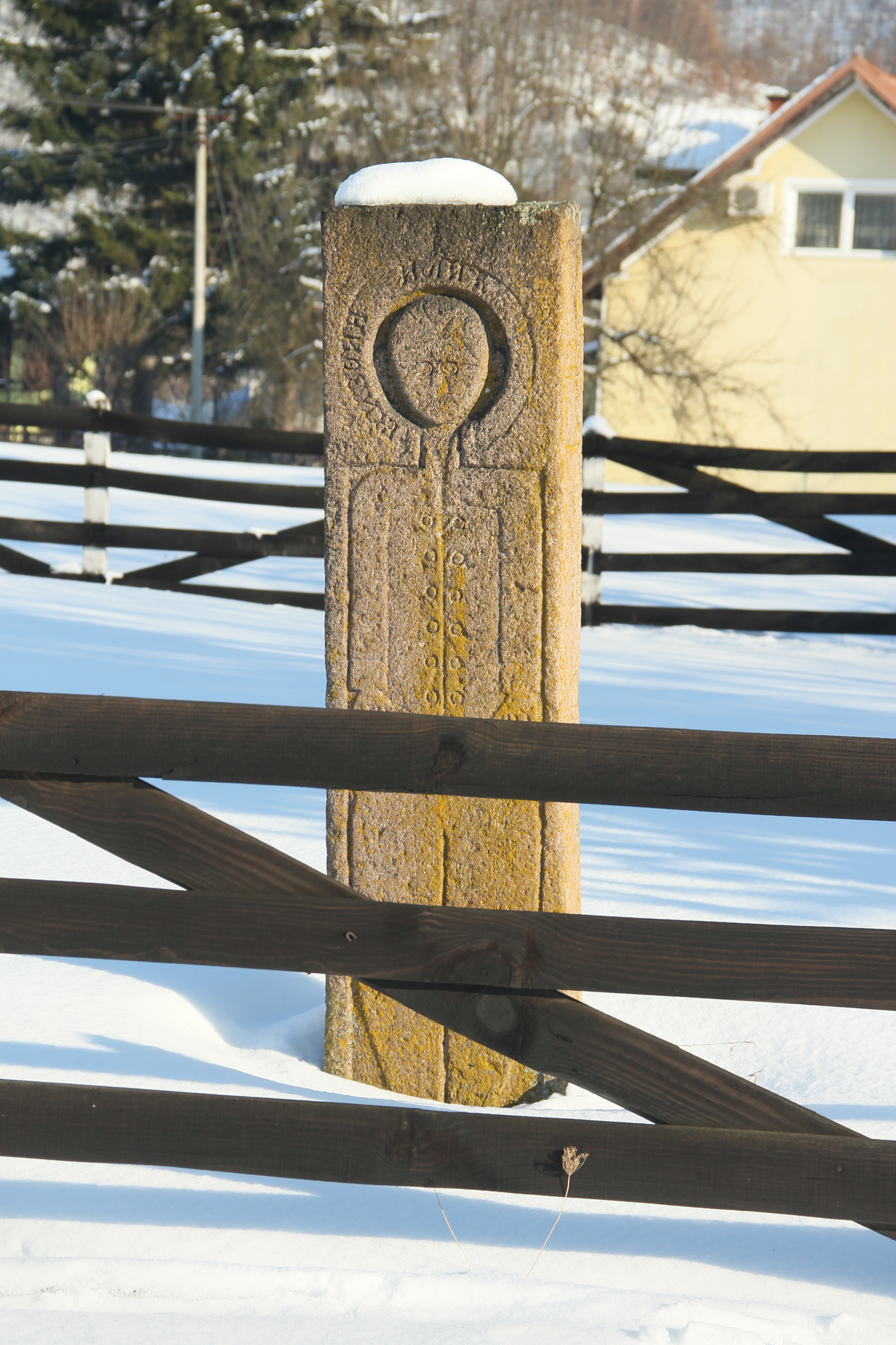 Roadside tombstone erected in memory of Zivojin Ilic. It is located in the village of Svrackovci (the municipality of Gornji Milanovac), Serbia.